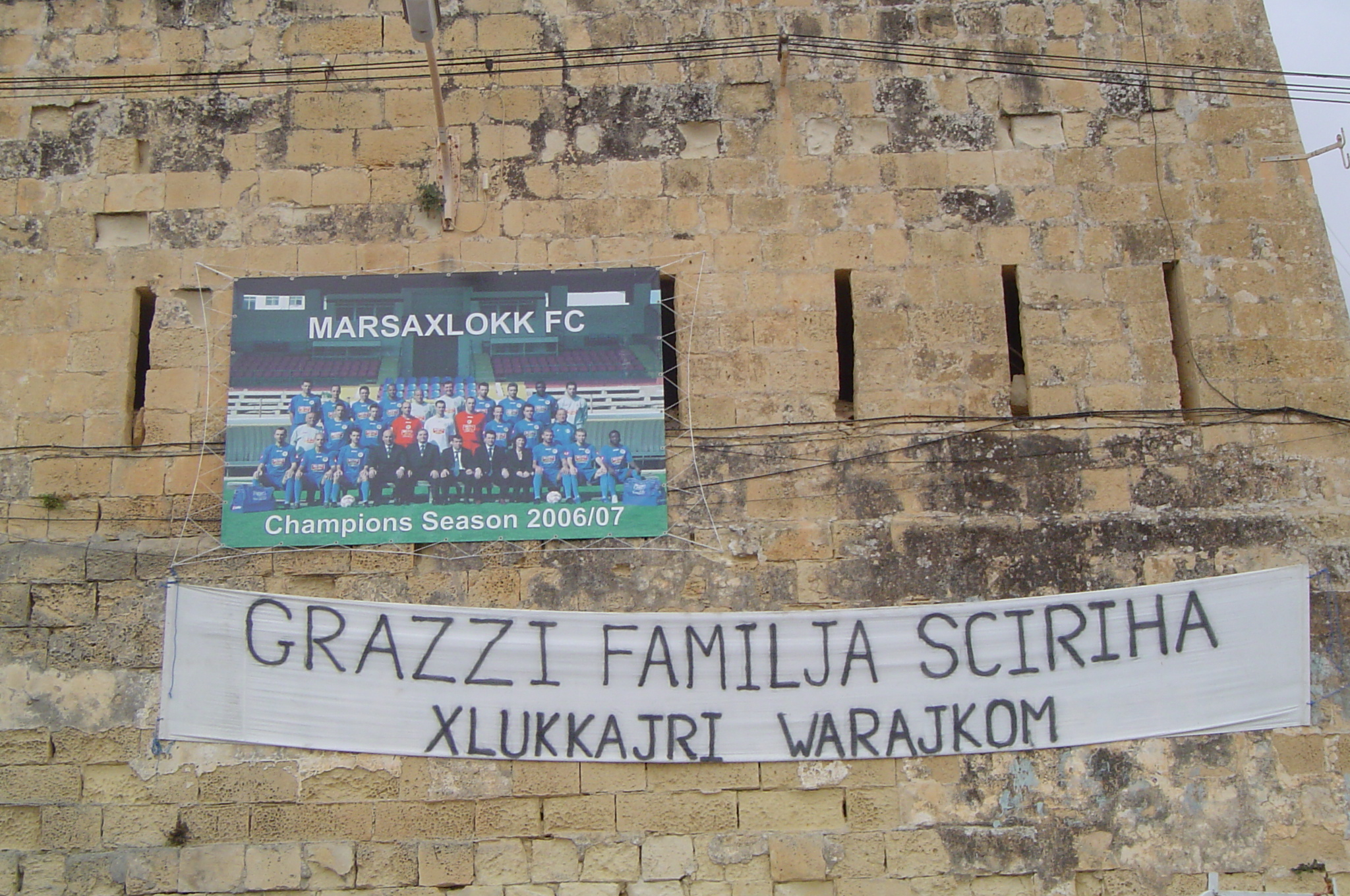 Champion FC